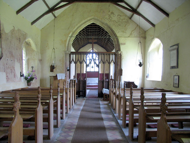 All Saints, Crostwight, Norfolk - East end